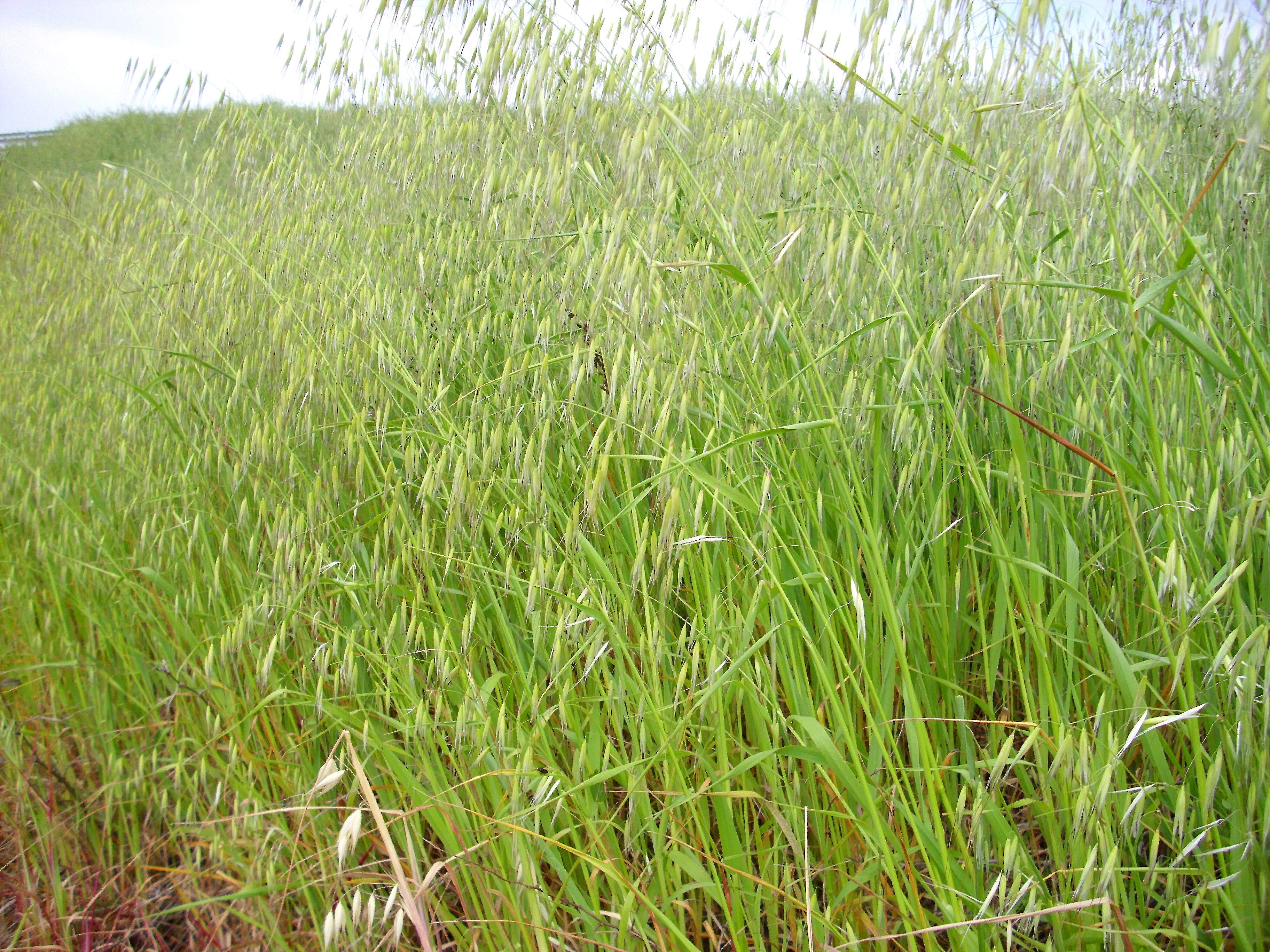 Avena sterilis habit, Dehesa Boyal de Puertollano, Spain